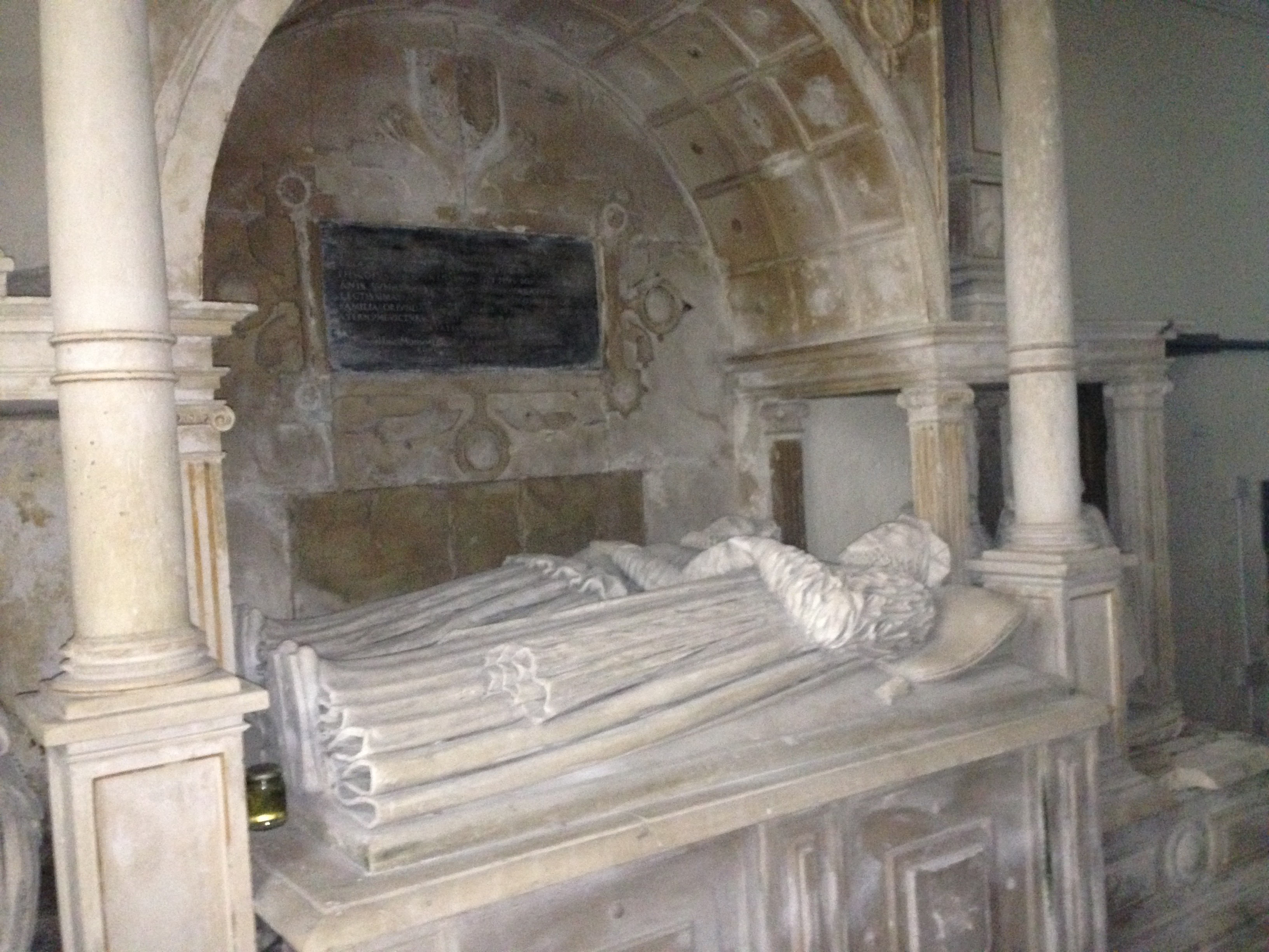 Tomb of Anthony Rudd, Bishop of St. David's (c.1549-1615) and Jane Rudd, St Cathe's Church at Llangathen, Carmarthenshire, Wales. Former occupant of Aberglasney.